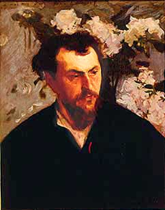 Portrait of Ernest-Ange Duez John Singer Sargent -- American painter c. 1884 The Montclair Art Museum, New Jersey Oil on canvas 28 3/4 x 23 3/4 in. Gift of Dr. Arthur Hunter in memory of Ethel Parsons Hunter 1962.32 Jpg: Montclair Art Museum